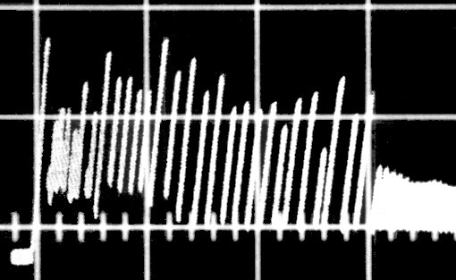 Breakdown and failure of a a 1nf 250V capacitor